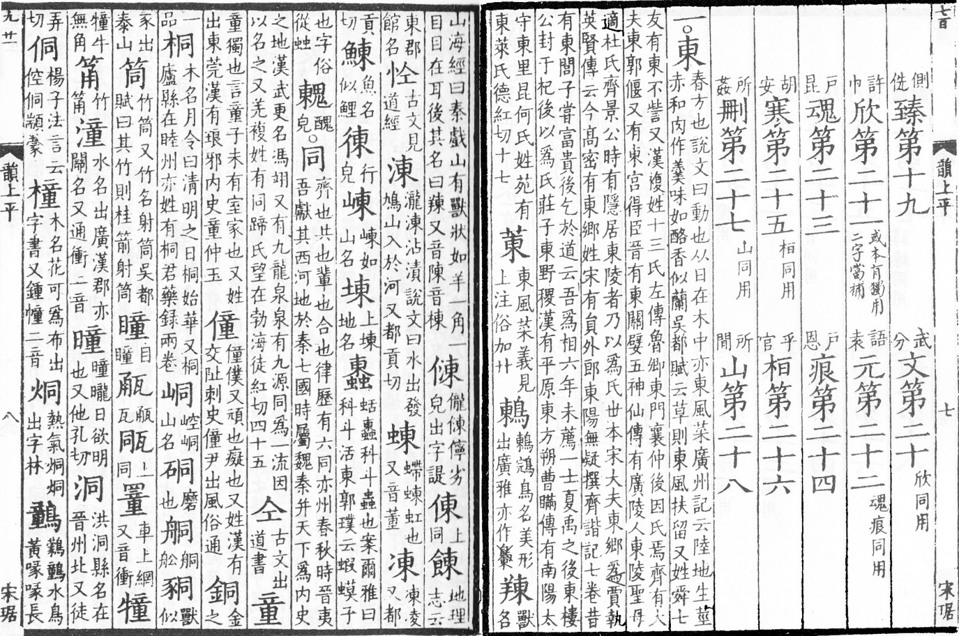 First page of the Song edition of the Guangyun.